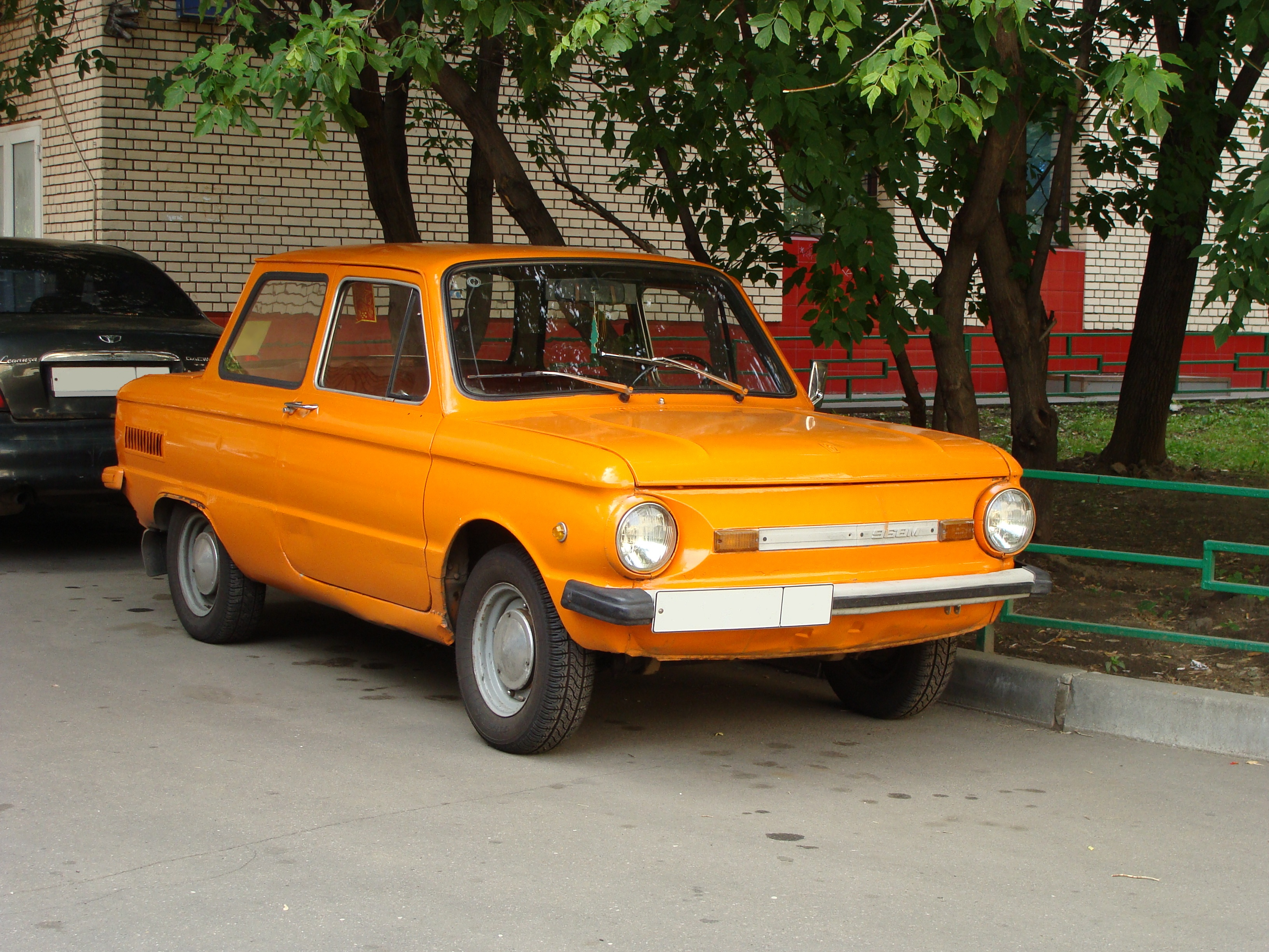 ZAZ-968M